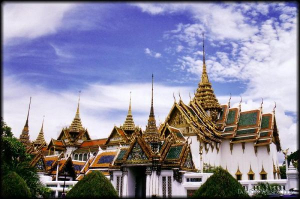 Phra Thinang Dusit Maha Prasat (right background), Grand Palace in Bangkok, Thailand Own picture from website.